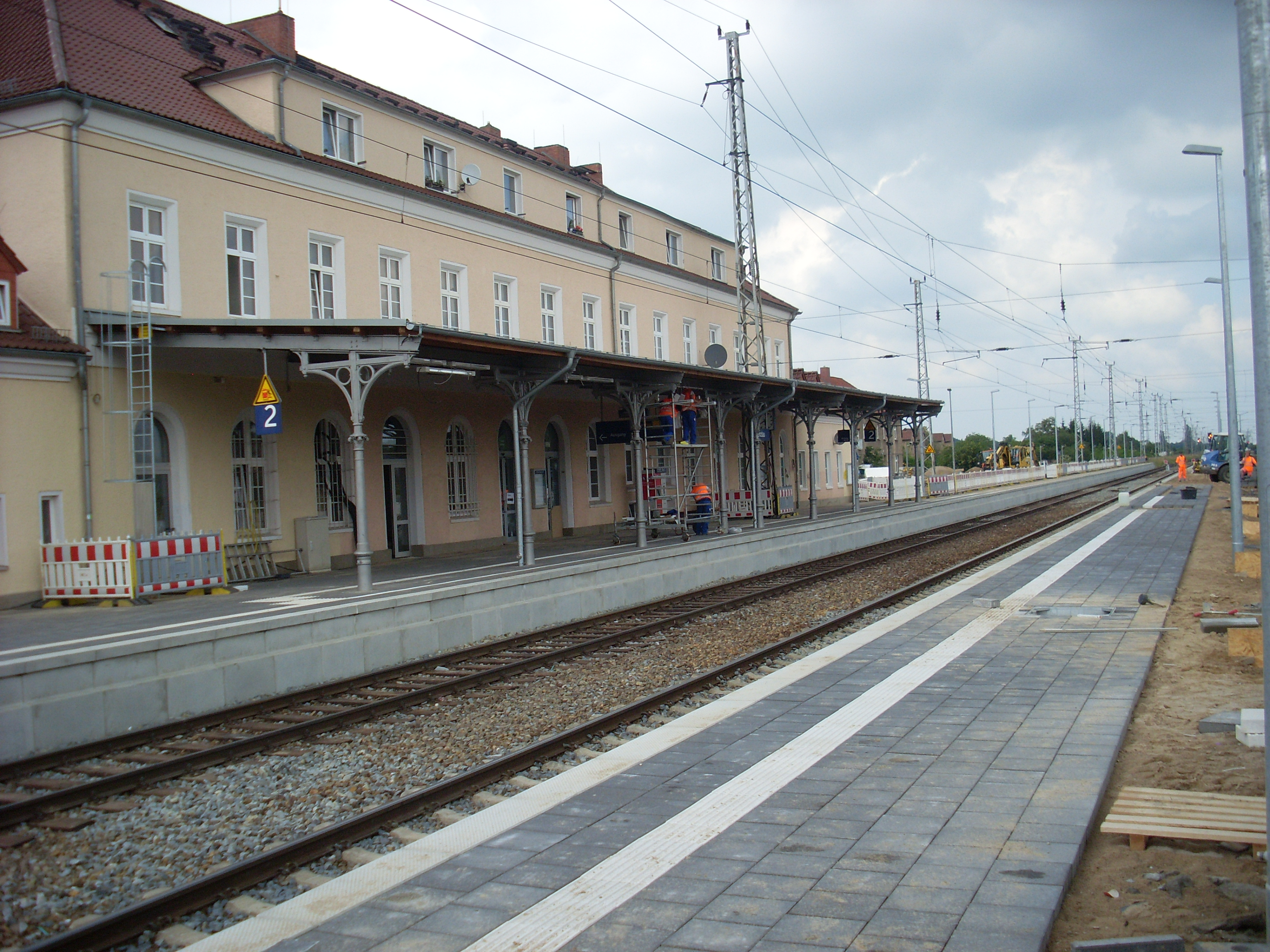 main platform station Prenzlau